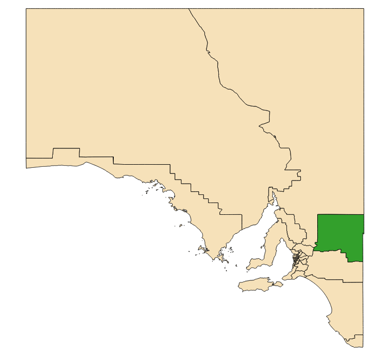 Electoral district 2018 boundaries shown in green